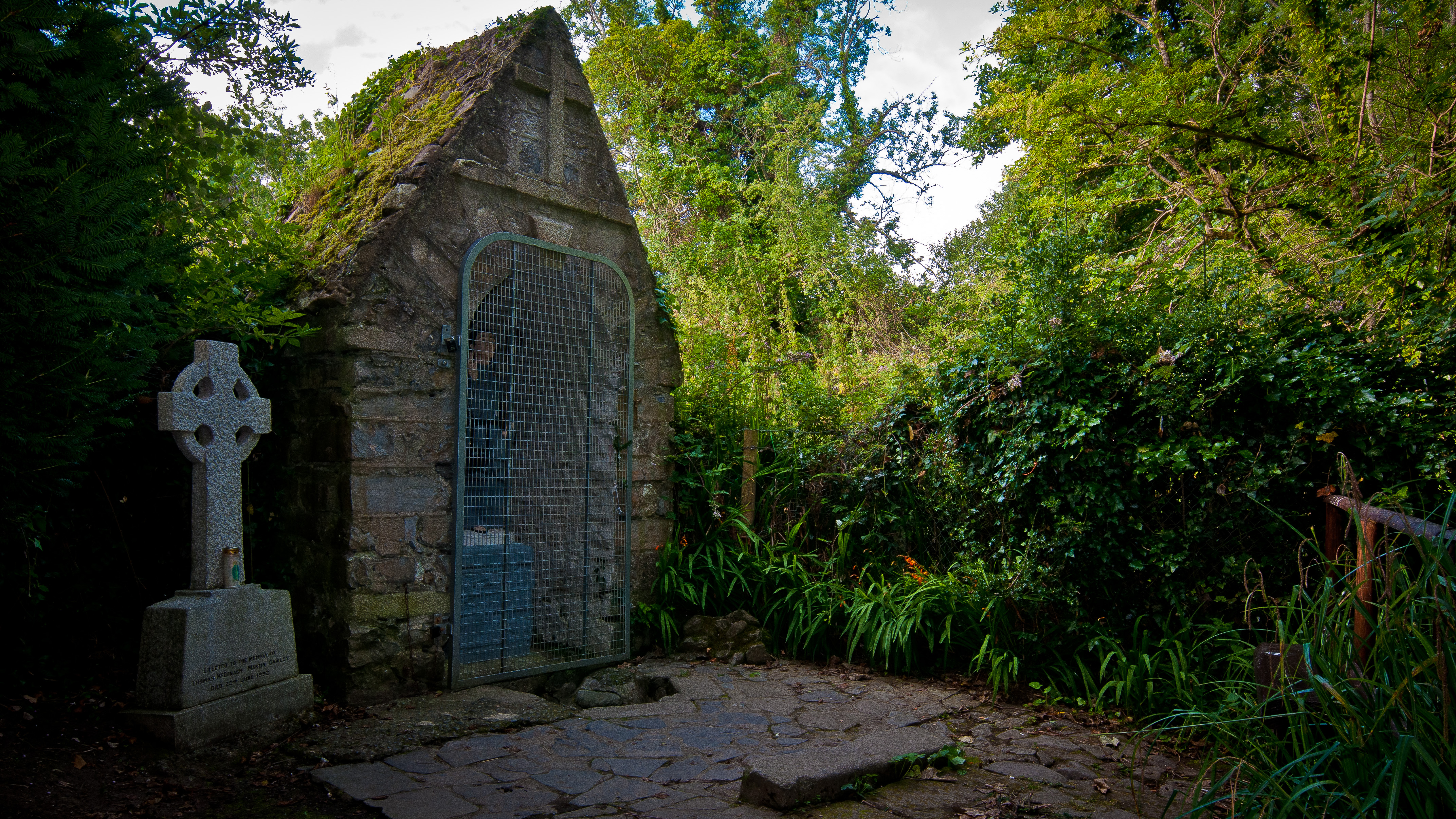 St Columba's Well, Orlagh, Montpelier Hill